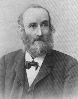 Portrait of the German mycologist Paul Hennings